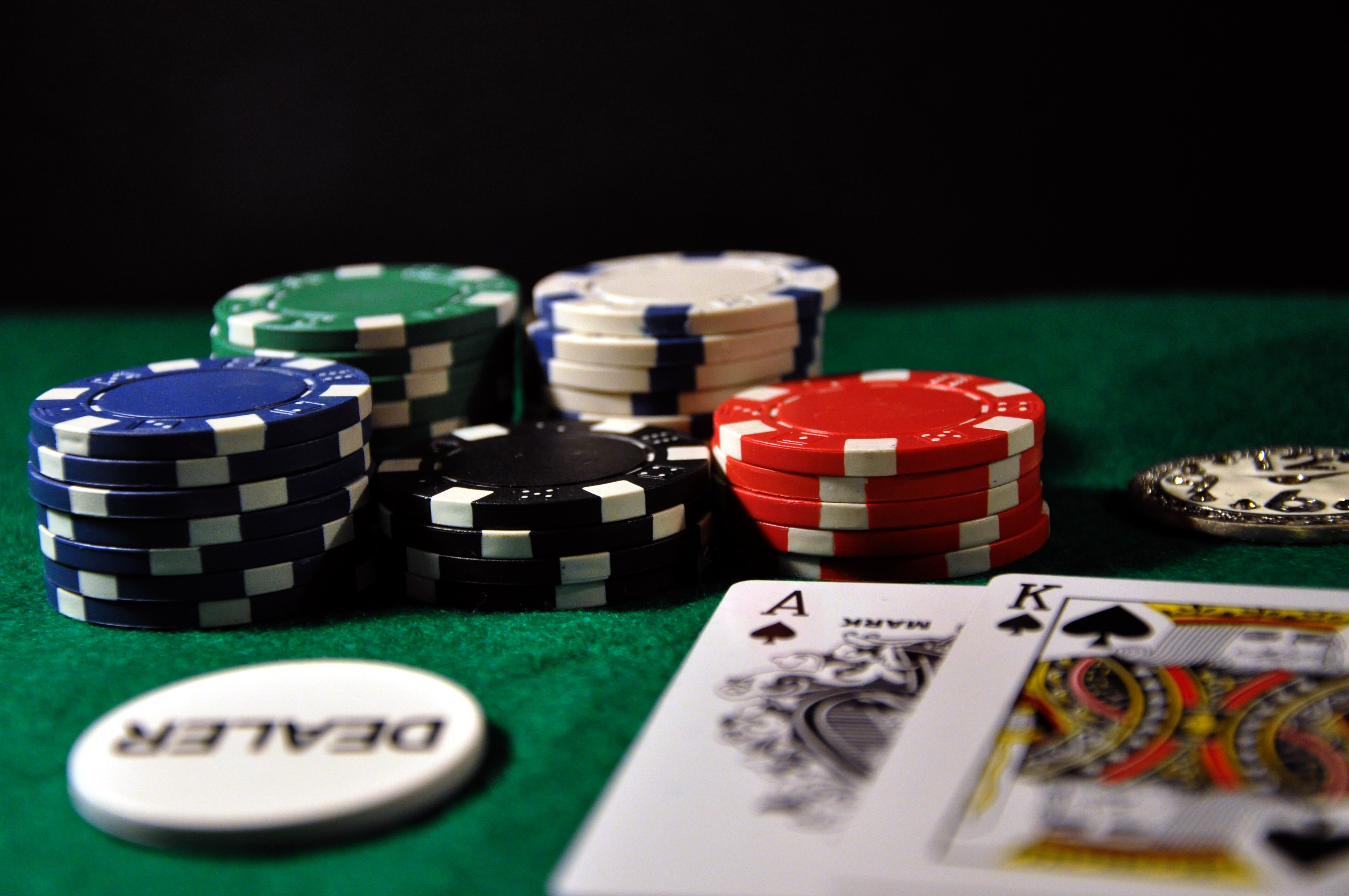 Card games and game tokens.